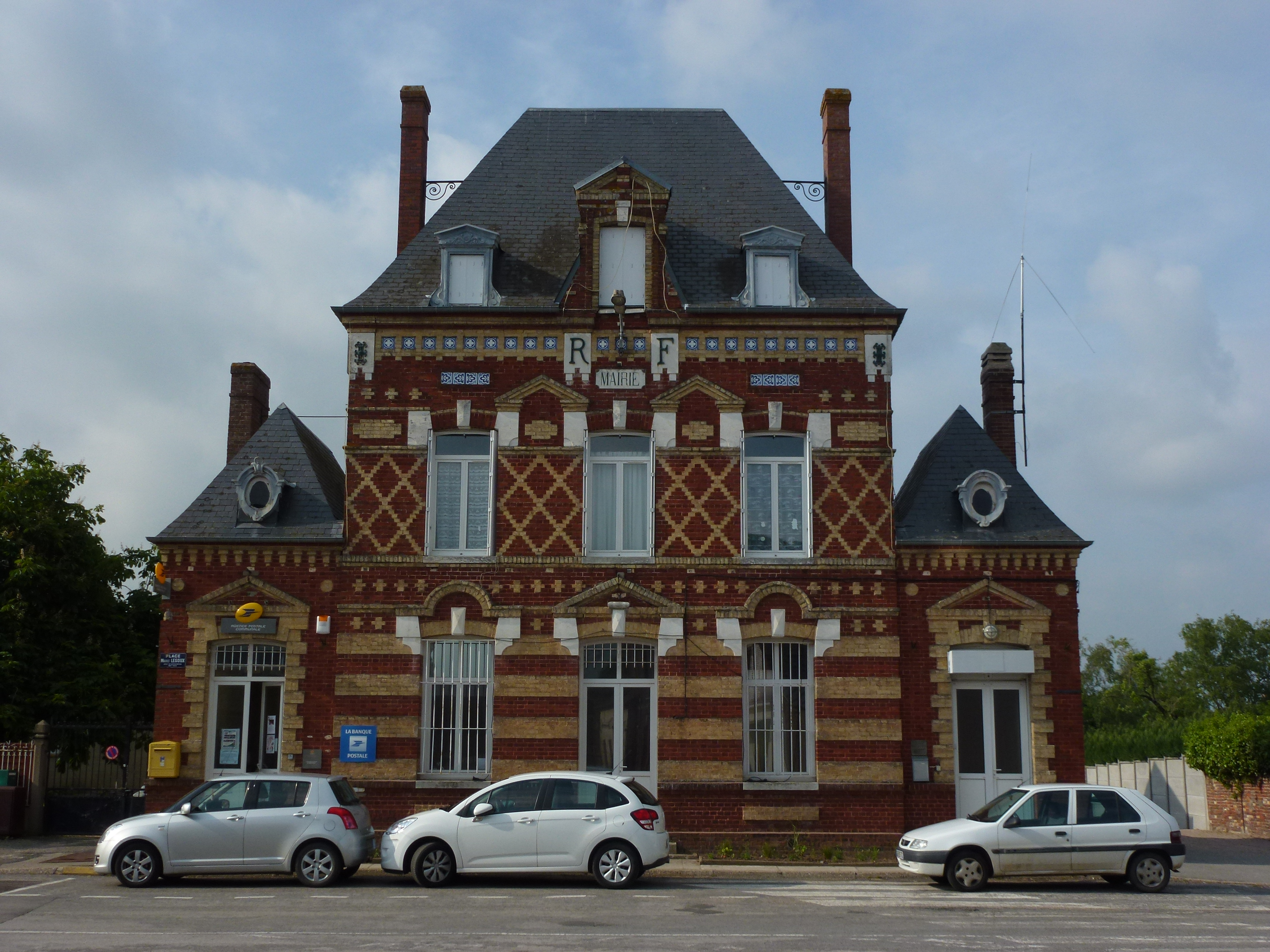 Quittebeuf (Eure, Fr) mairie